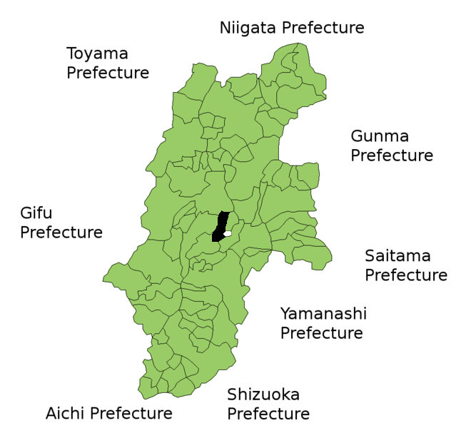 Location Map of Okaya in Nagano Prefecture, Japan